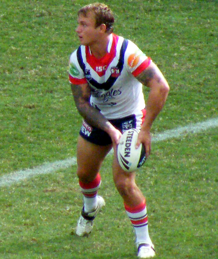 Jake Friend